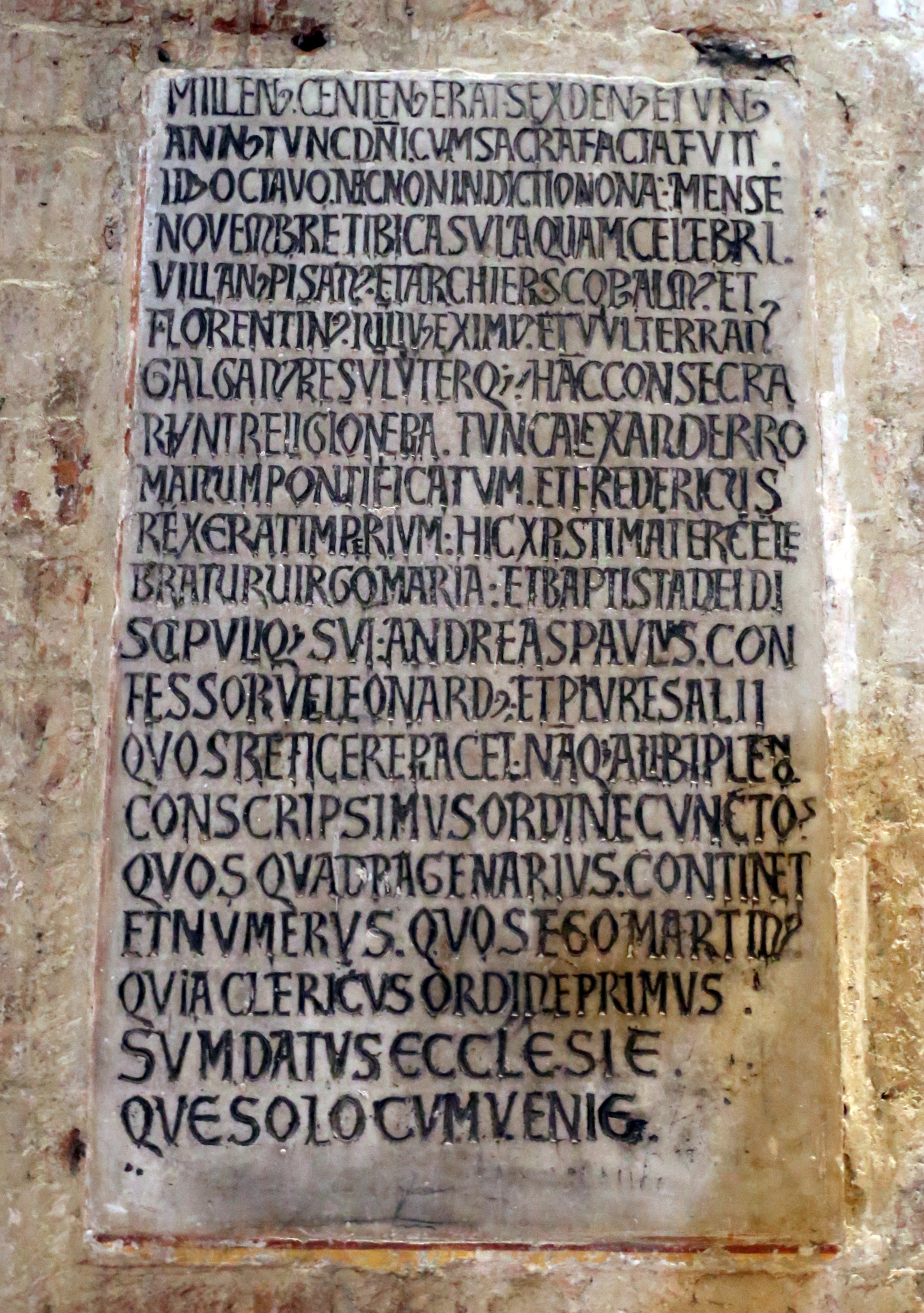 Santa Maria Assunta a Casole d'Elsa